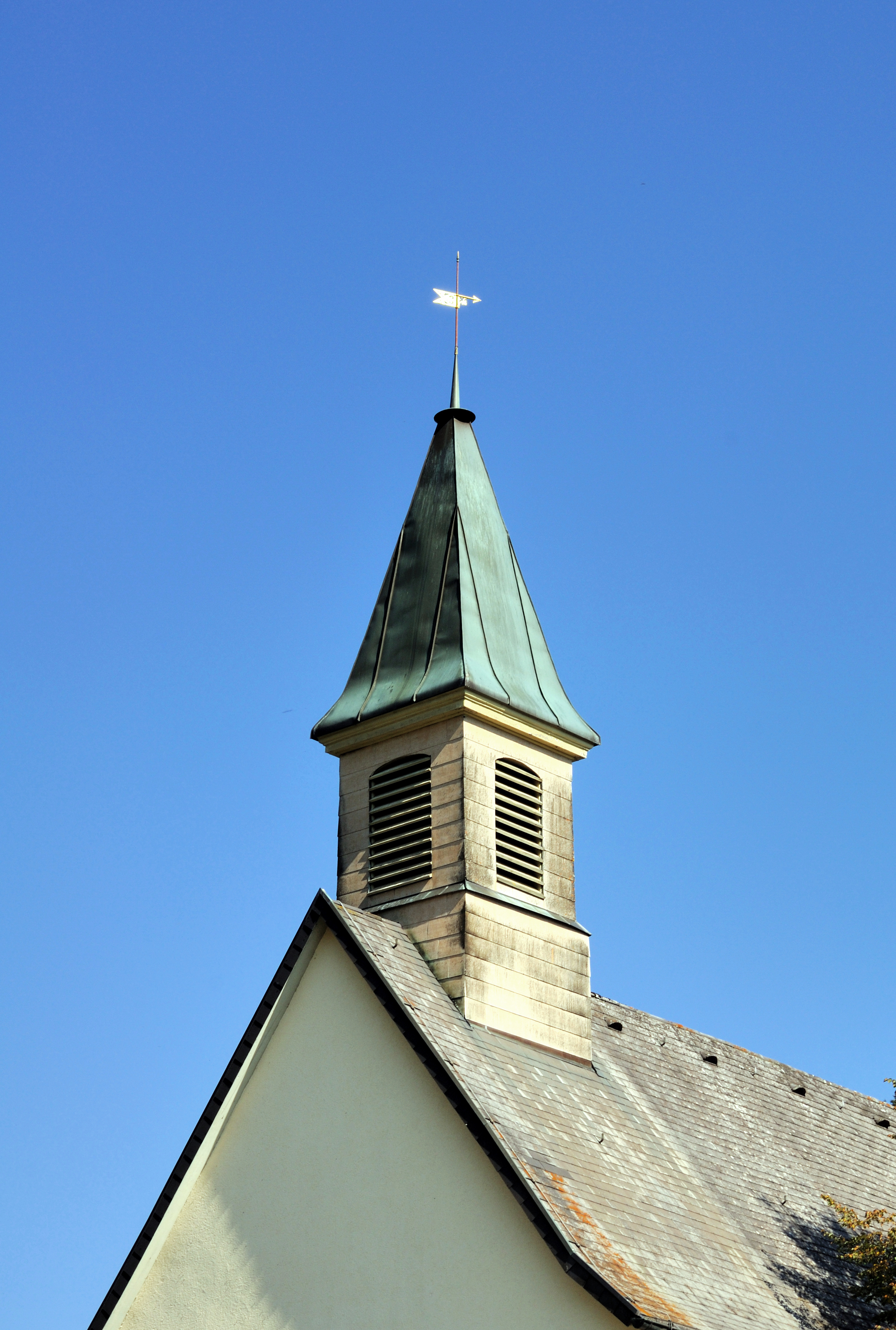 Steinen-Endenburg: Protestant Church